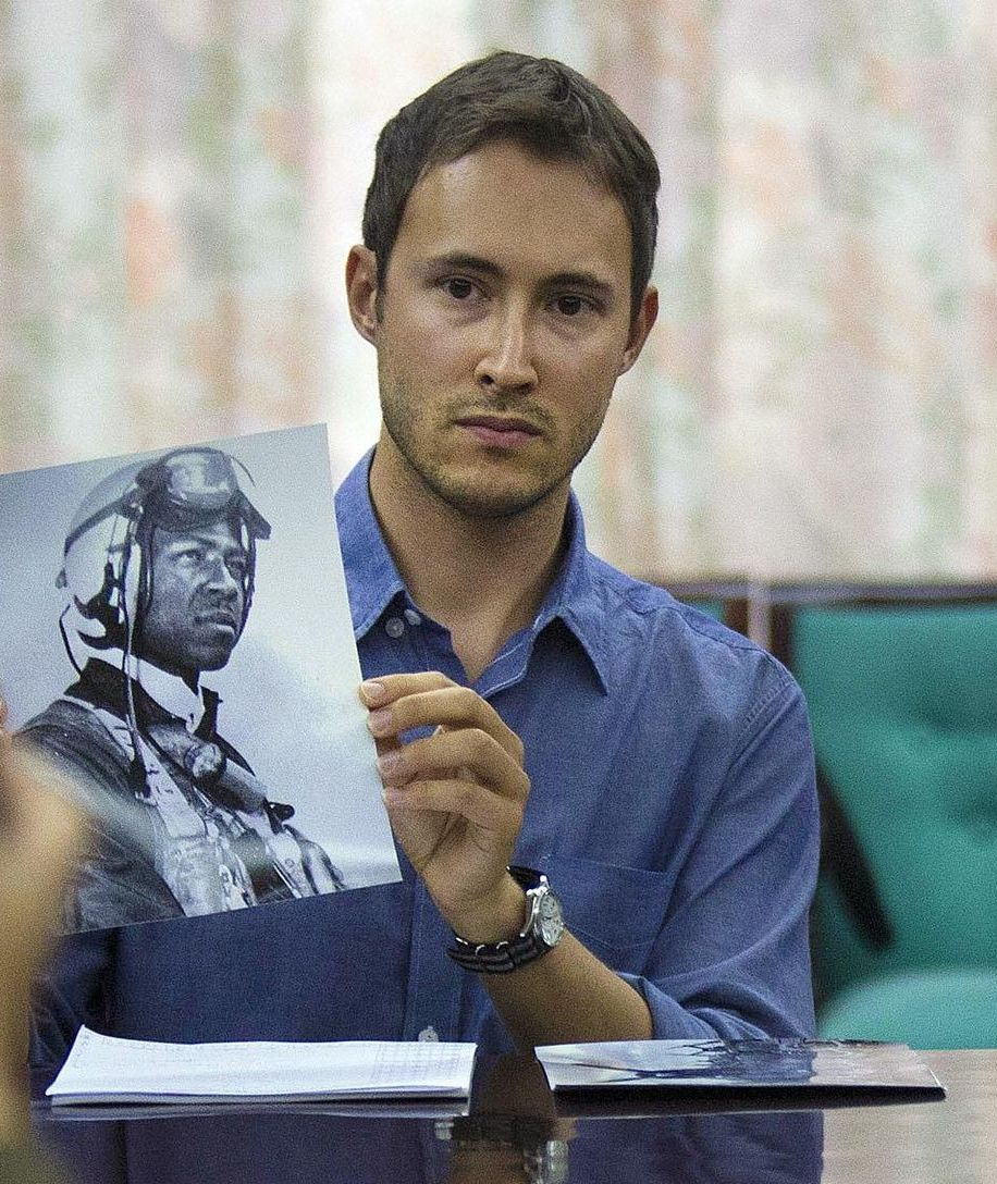 Author Adam Makos and Dick Bonelli in talks with North Korean officials for the handing over of a Korean War pilot Jesse Brown. Brown was the first African-American naval aviator. During the Korean war, he was Hudner’s wingman during sorties they flew off the deck of the USS Leyte aircraft carrier. The two flew single-engine Corsair (F4U) fighters to provide critical air support for Marines during the Battle of Chosin Reservoir - a pivotal moment in the war.